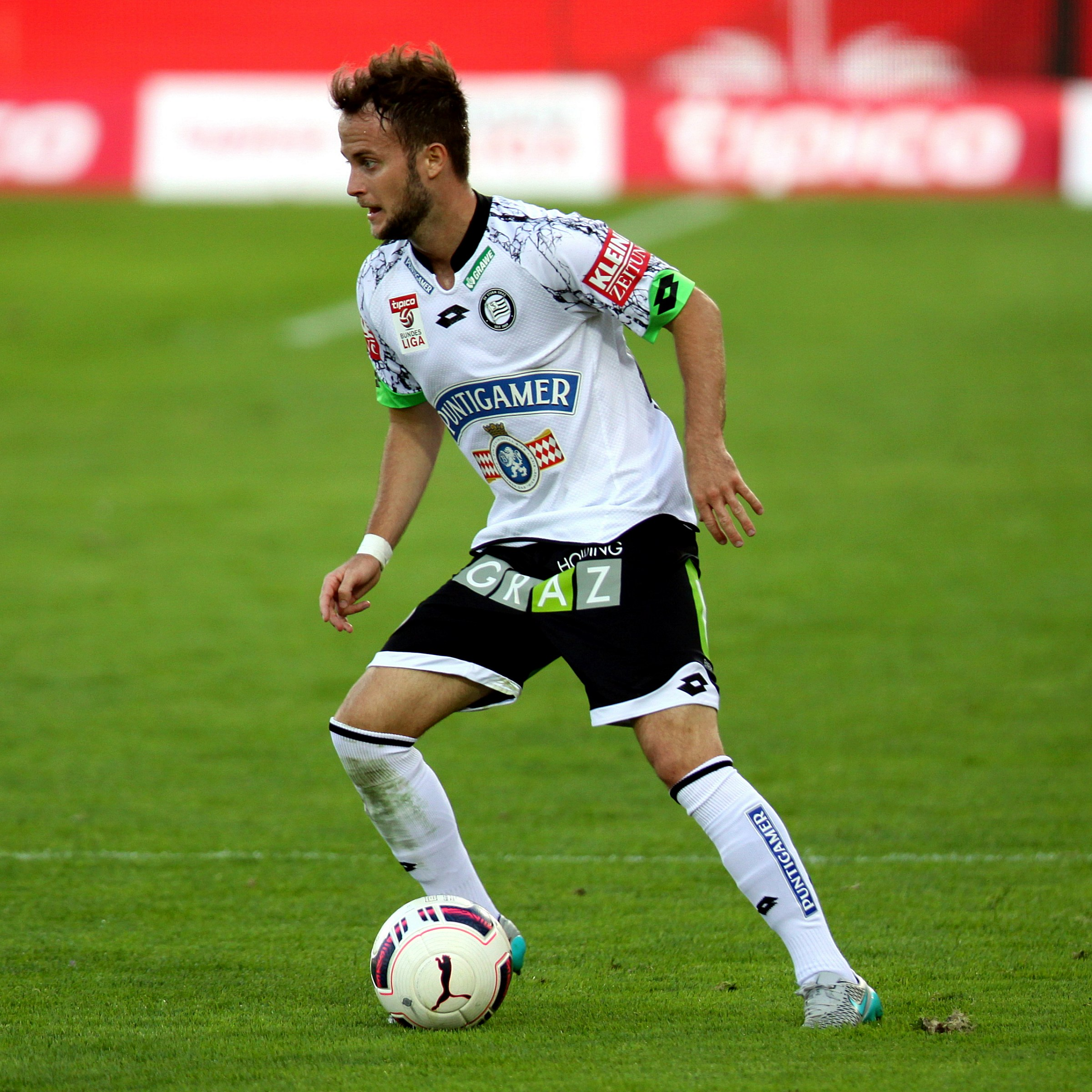 Match of the Austrian Football Bundesliga – SV Mattersburg (green shirts) vs. SK Sturm Graz (white shirts) on 2015-09-13 in Pappelstadion, Mattersburg – The photo shows Christian Klem